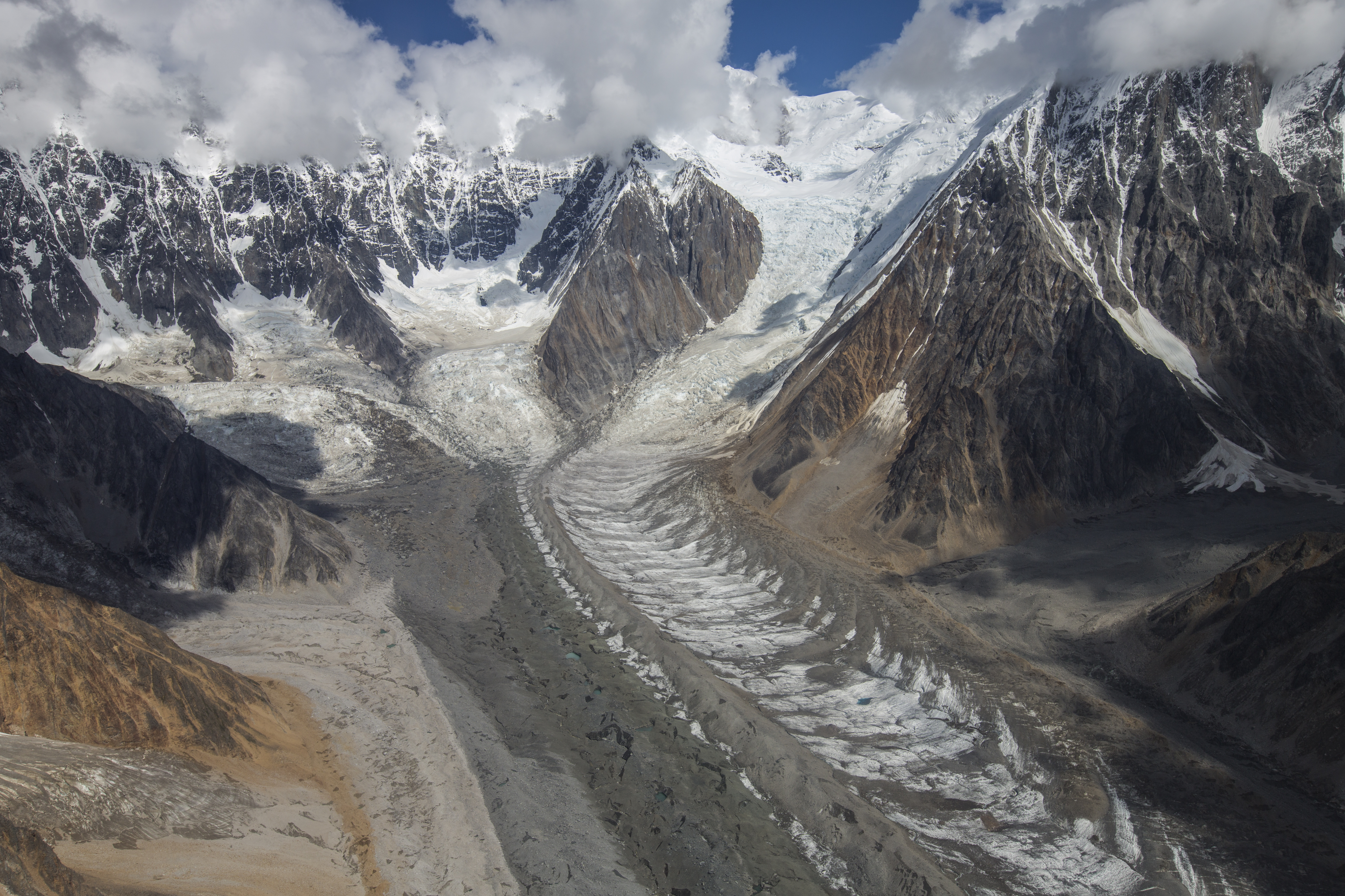 NPS / Jacob W. Frank Flight paths